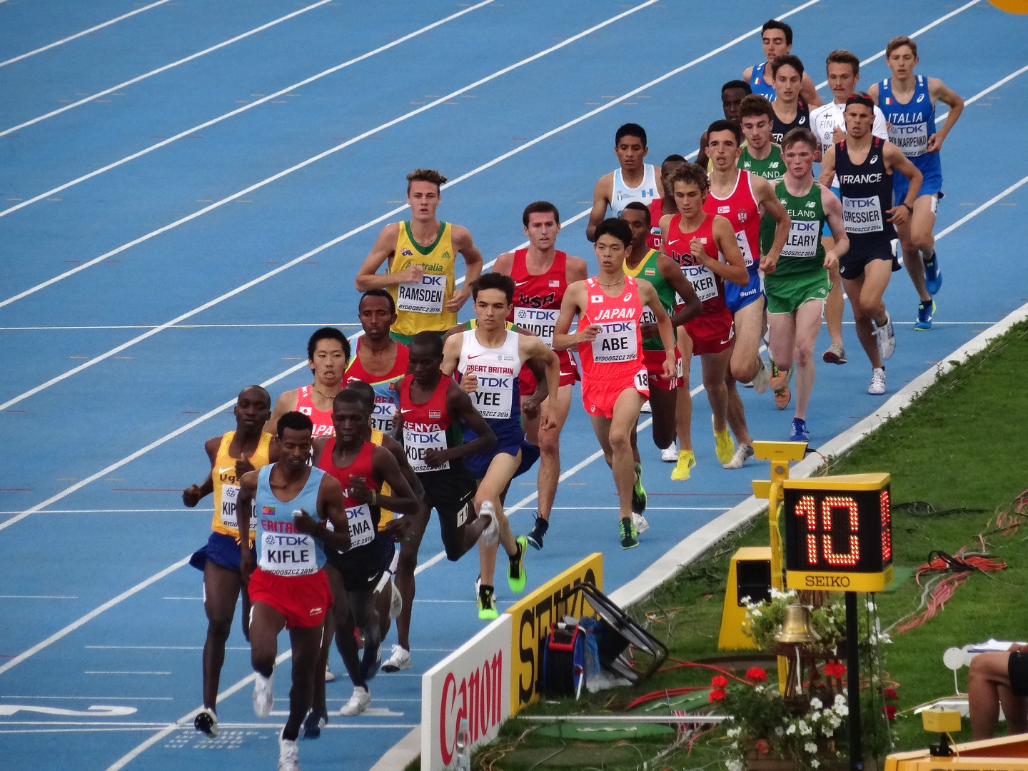 2016 IAAF World U20 Championships in Bydgoszcz, 5000m men final